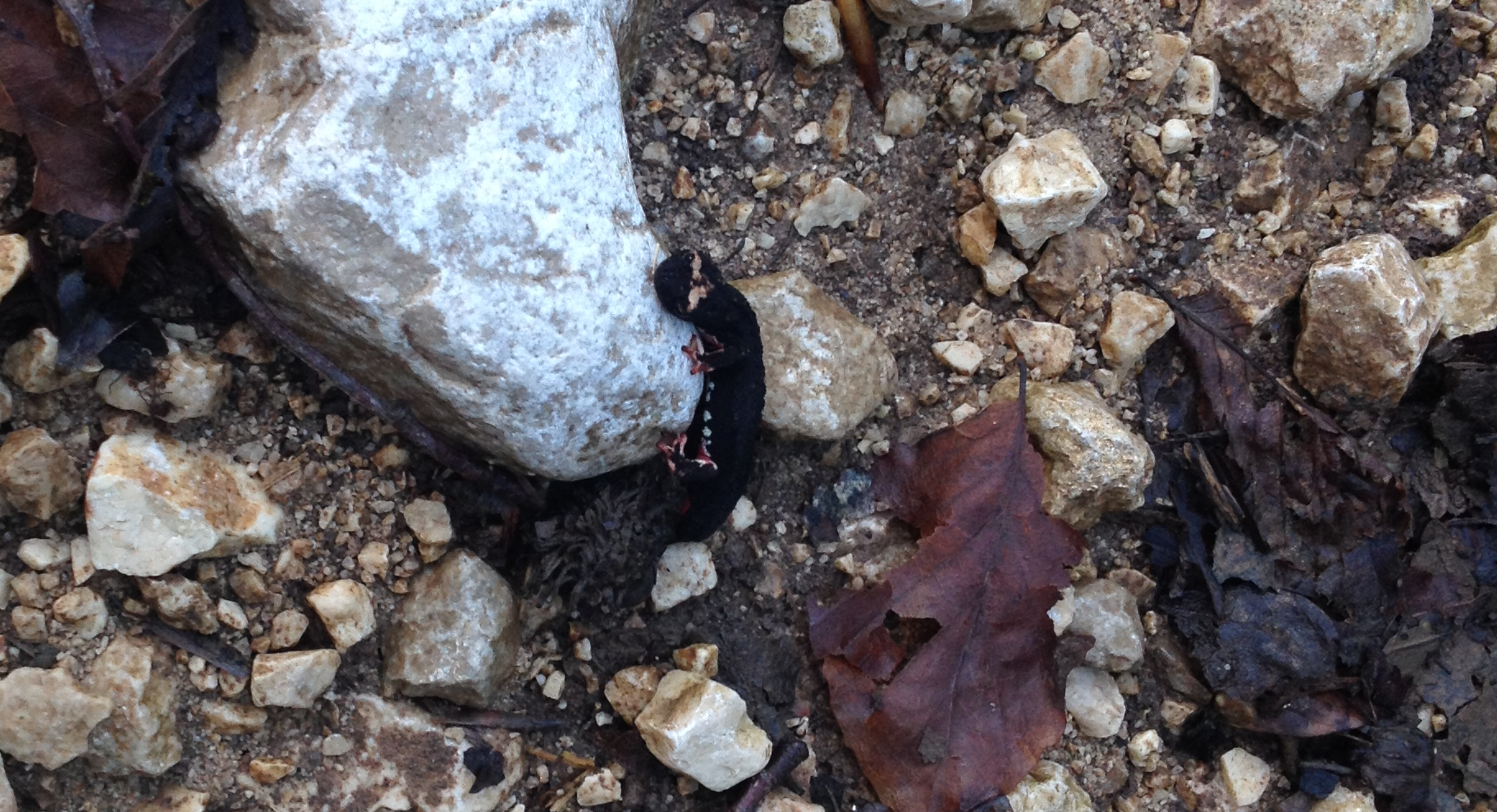 The spectacled salamander (Salamandrina terdigitata) defensing itsef by raising the tail and legs, showing partially the white spots on the underside as a deterrent.